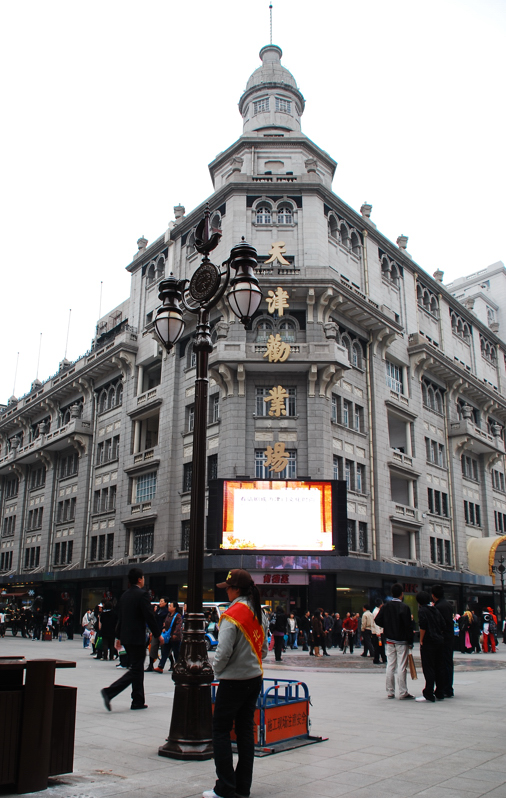 Quanye Department Store, Heping District, Tianjin